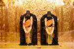 Swaminarayan Mandir, Colonia